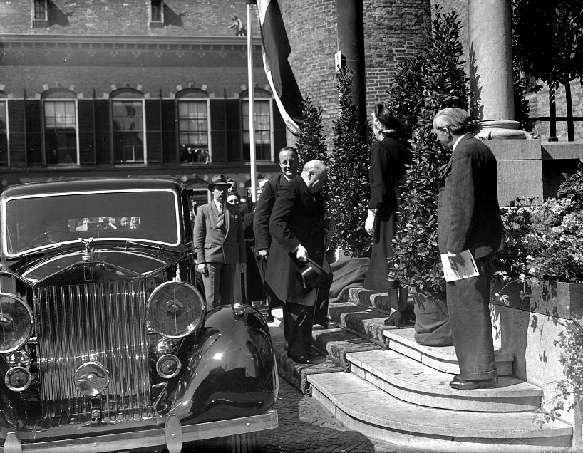 Congress of Europe in The Hague (1948). Arrival of Winston Churchill at the Hall of Knights.